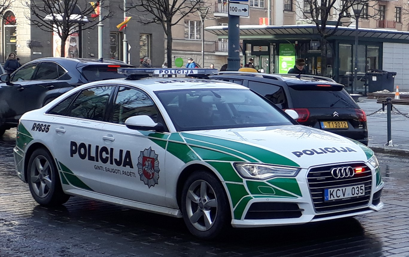 Lithuanian Police owned Audi A6 Quattro with a new exterior design.